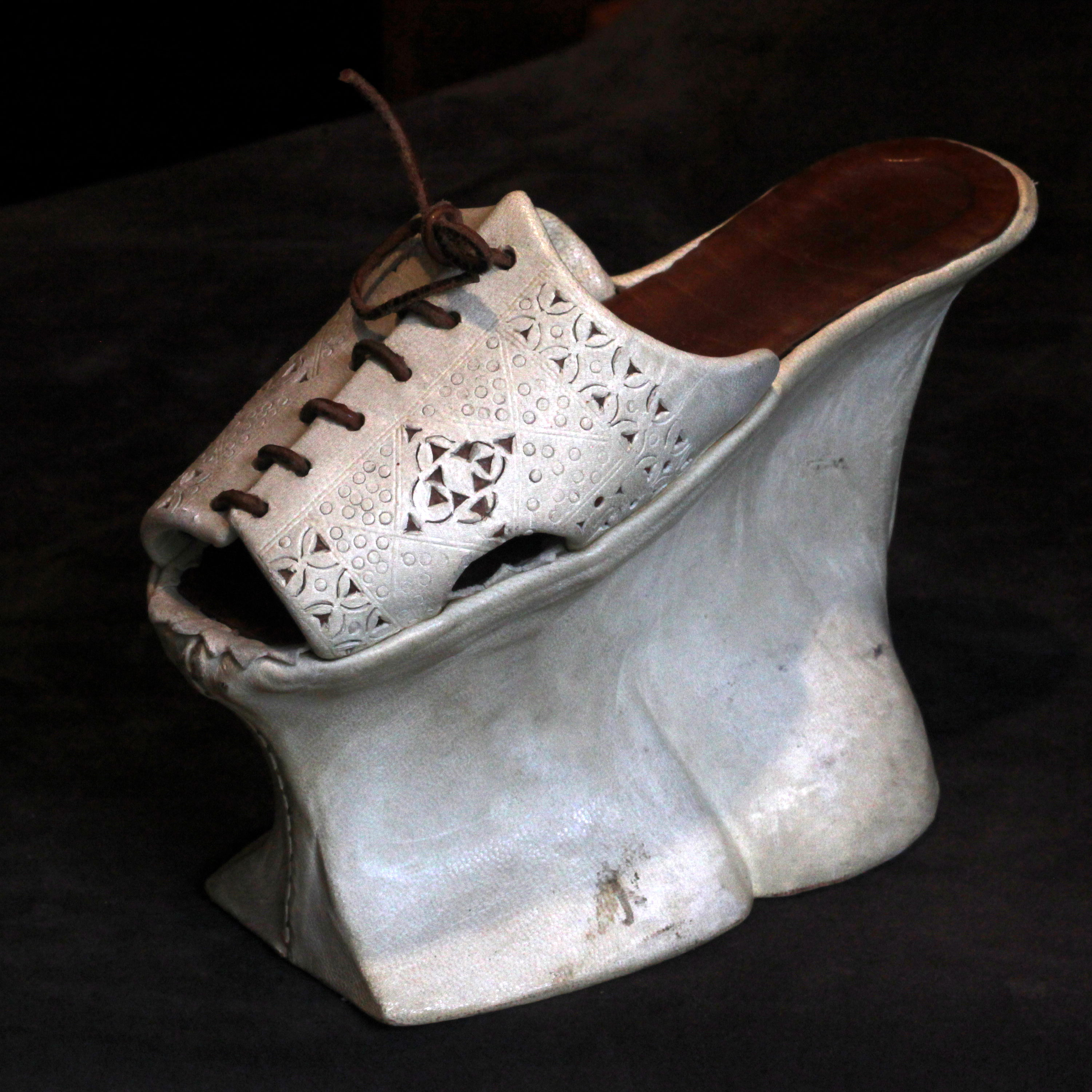 Reconstruction of an Venitian chopine, after models dating from 1500 to 1600. On display at the Shoe Musuem in Lausanne.